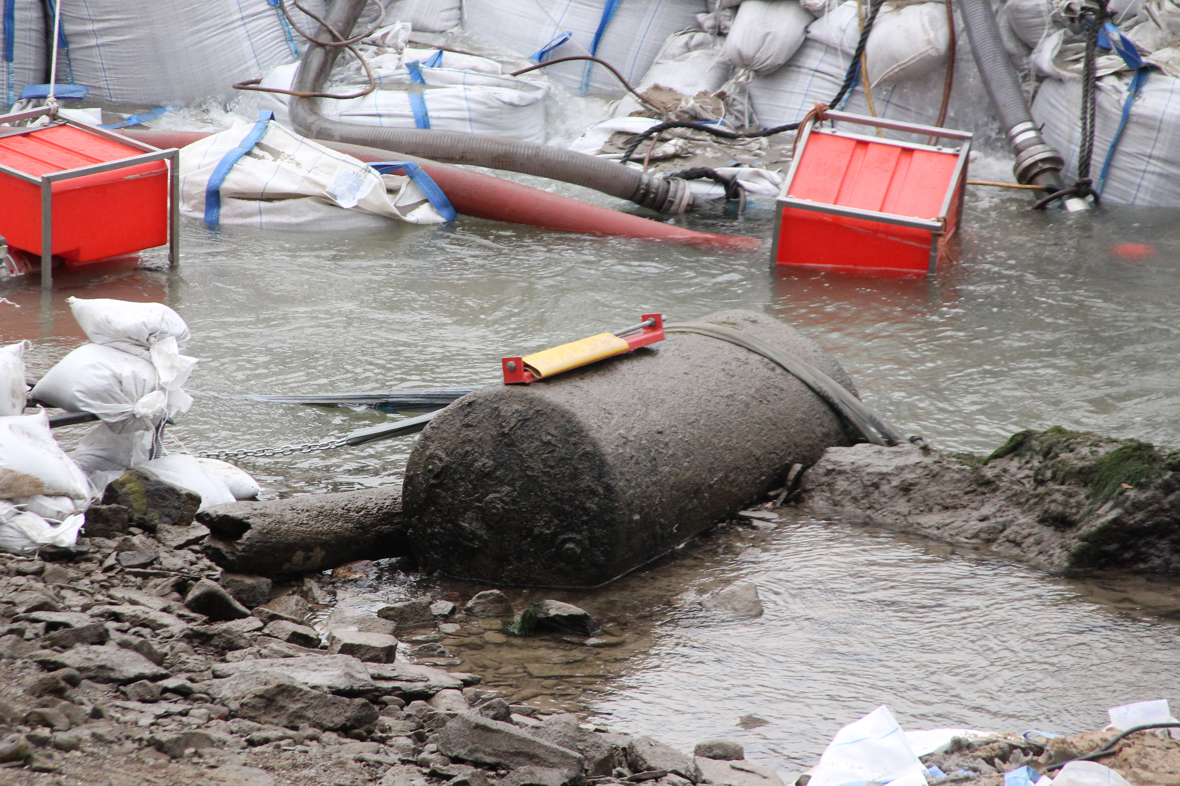 British WW2 air-dropped blockbuster bomb found in Koblenz